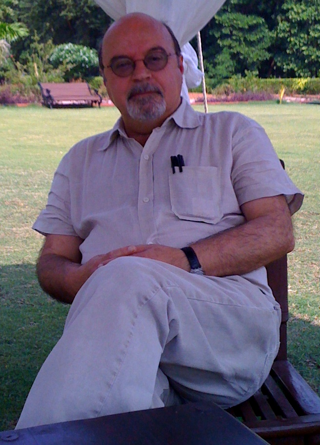 Raphaël Aubert, Swiss writer, essayist and journalist.